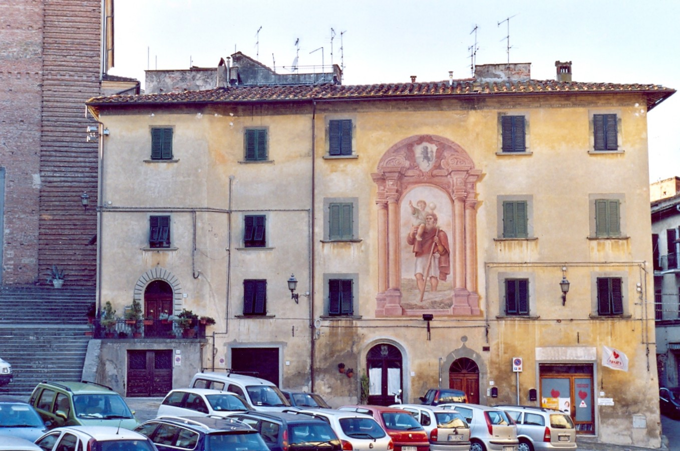 Fucecchio, Province of Florence, Italy. Piazza V. Veneto